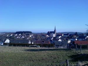 Picture of Gackenbach